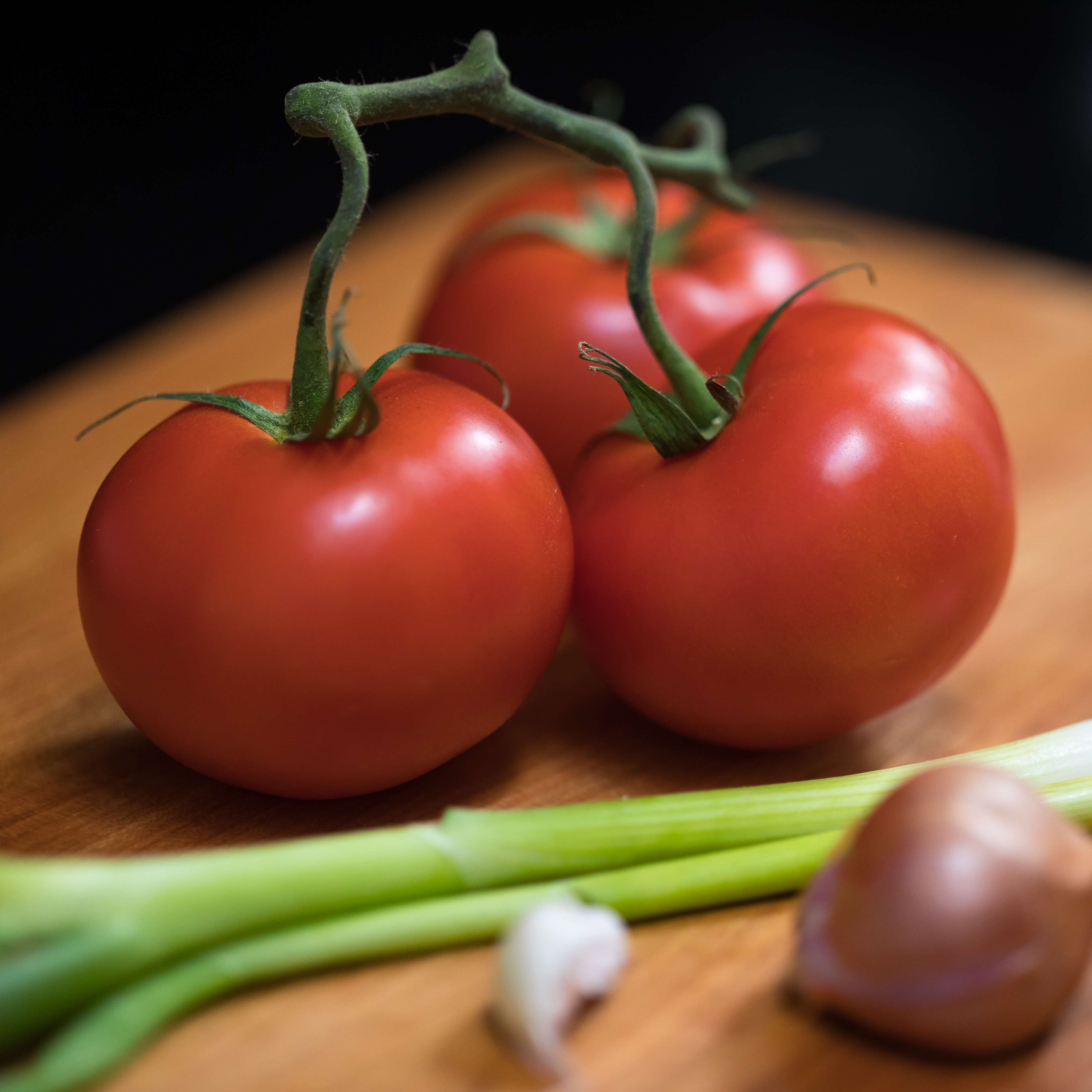 Tomatoes and other salad ingredients on wooden cutting board as an example for modern food photography: simple and natural, selective focus, shallow angle, extreme close-up